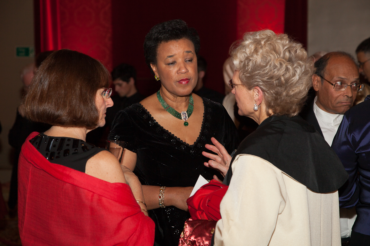 Chatham House Prize 2012